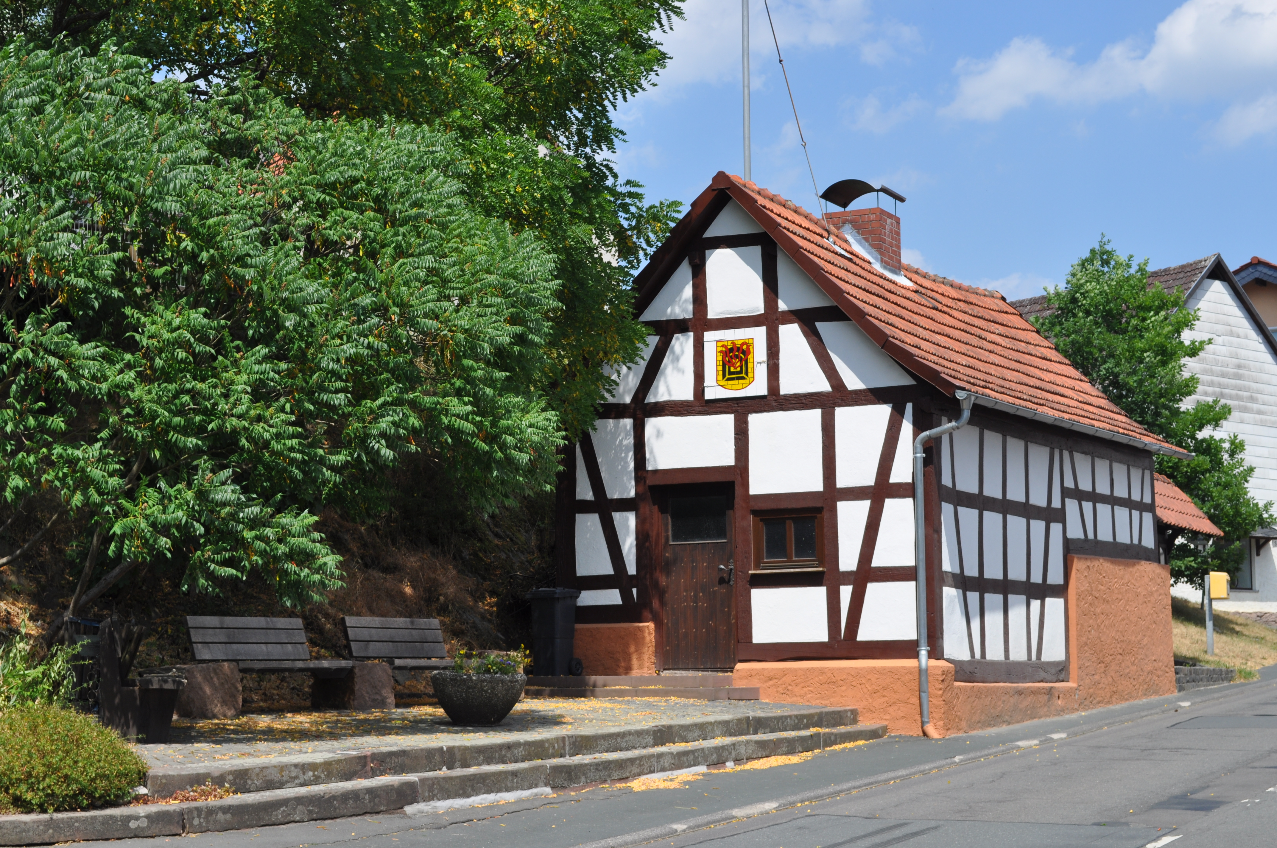 Bake house in Emmershausen